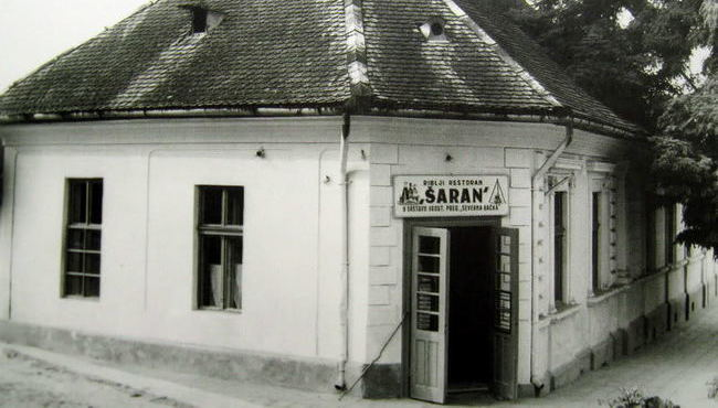 Restaurant Carp in Zemun, Serbia